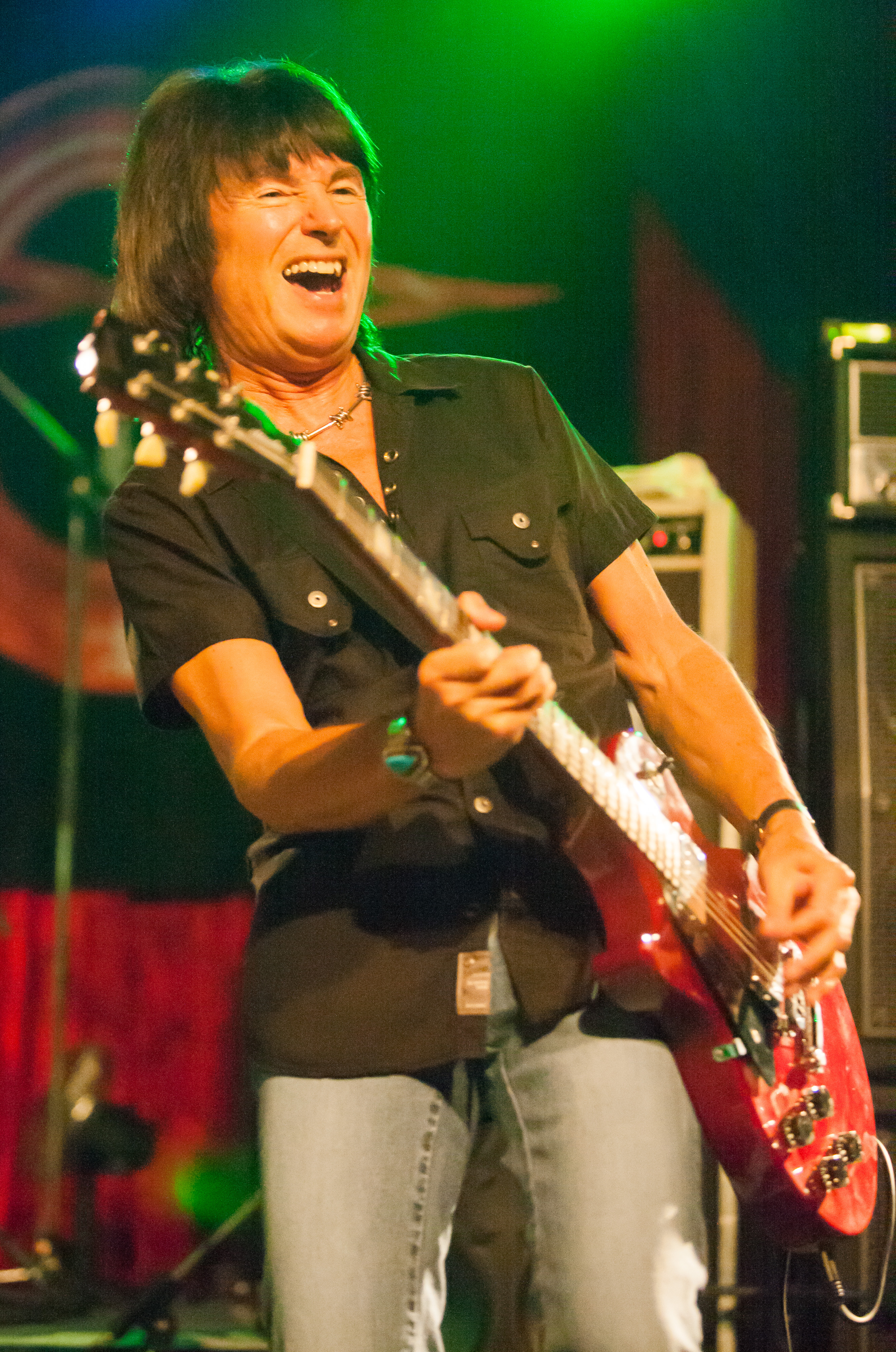 Paul Raymond, keyboardist and rhythm guitar player of the band UFO at music club “Kantine” in Cologne